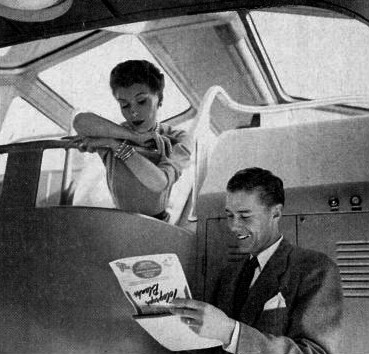 Photo of the interior of one of Santa Fe's domed observation cars "Pleasure Dome", aboard the Super Chief.